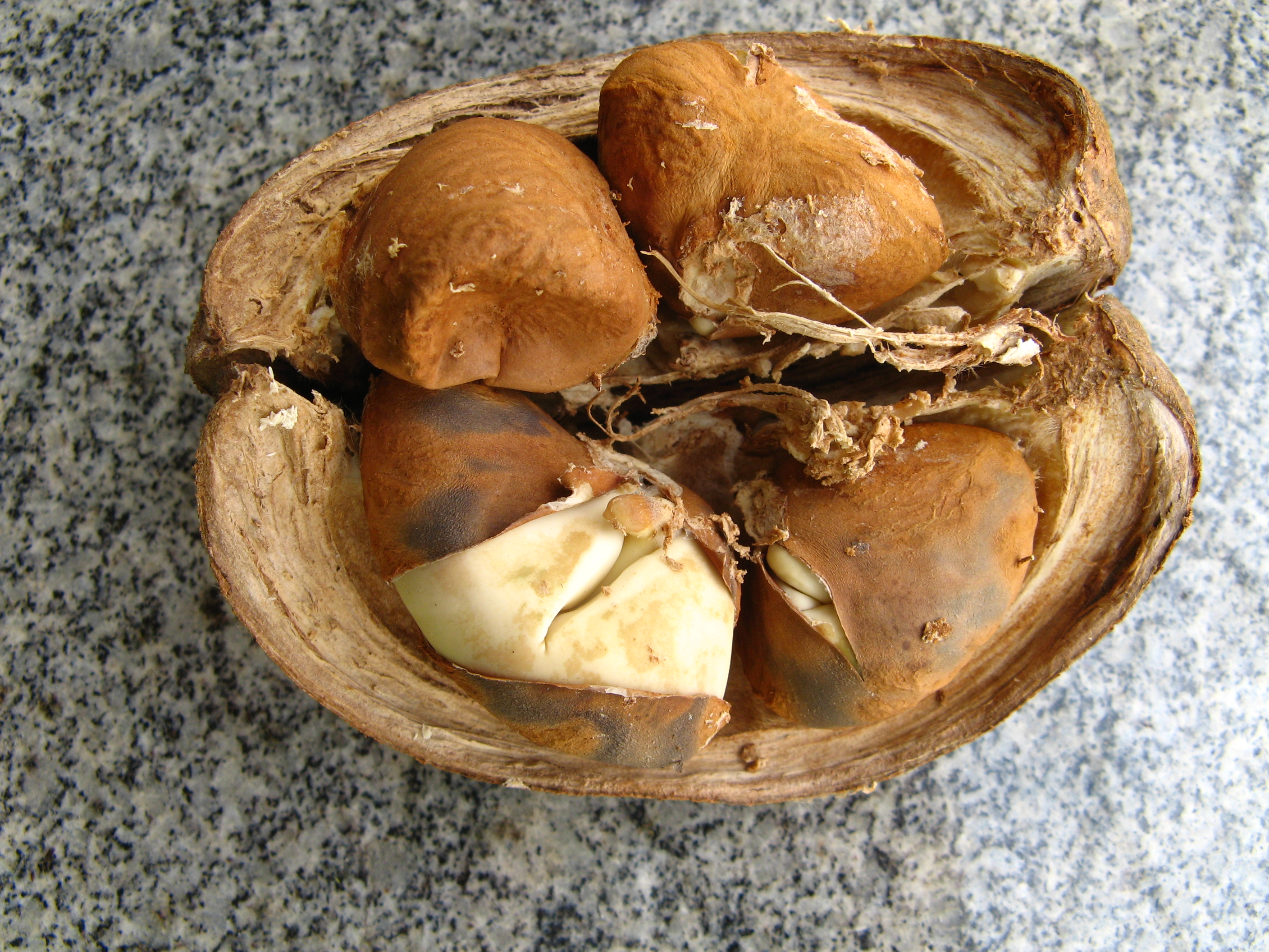 pachira aquatica fruit & nuts, from sao paulo brazil